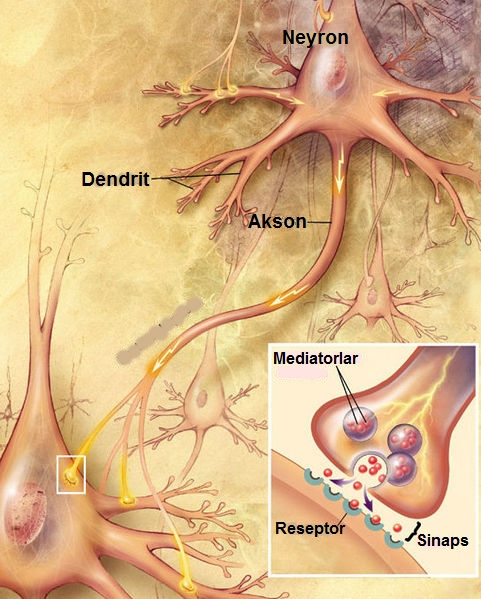 Drawing illustrating the process of synaptic transmission in neurons, cropped from original in an NIA brochure